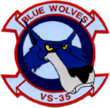 Insignia of the U.S. Navy Sea Control Squadron 35 (VS-35) "Blue Wolves". VS-35 Lineage: established as VS-35 on 4 April 1991. Insignia approved: 12 January 1998.